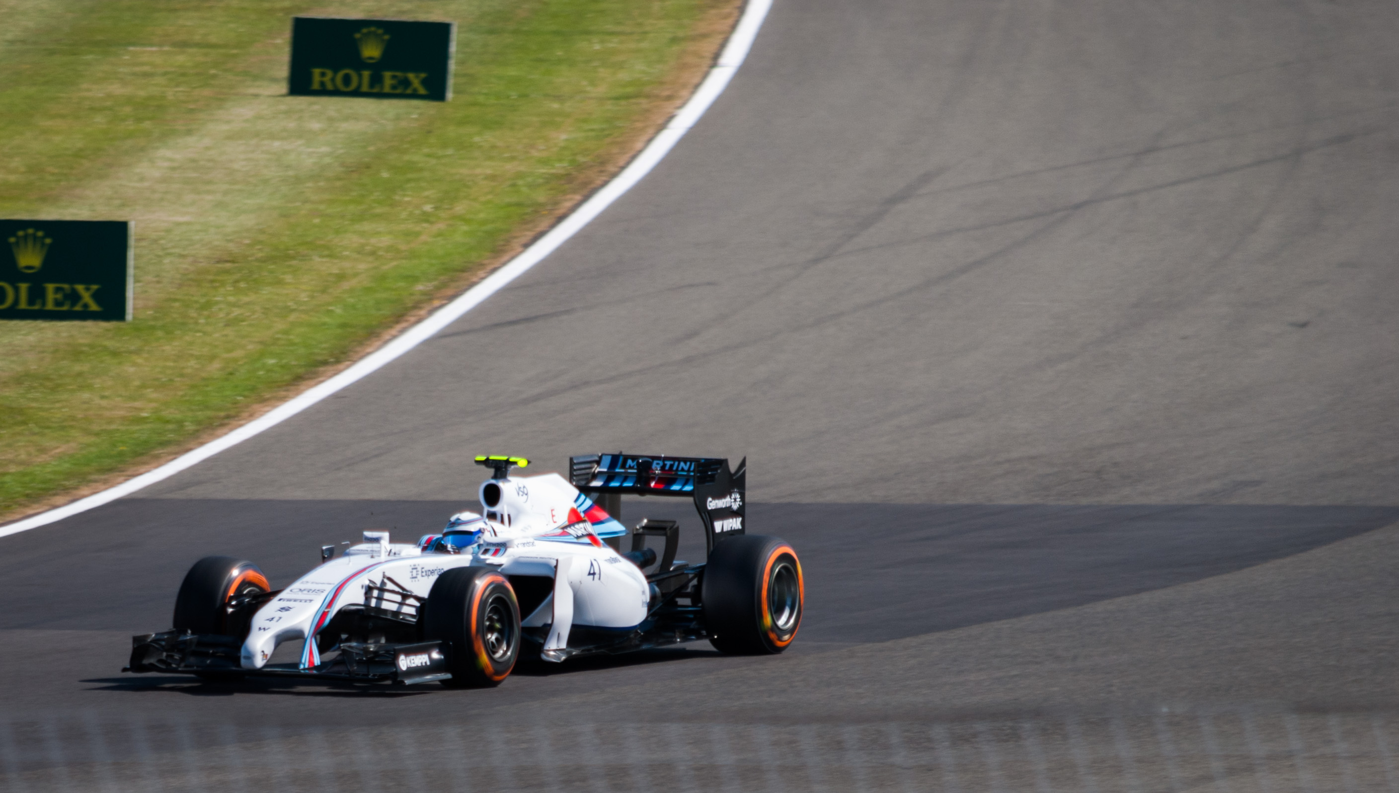 Susie Wolff on the Williams FW36 at 2014 British Grand Prix